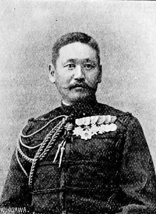 Colonel Kigoshi; Chief of Staff of the 3rd Division